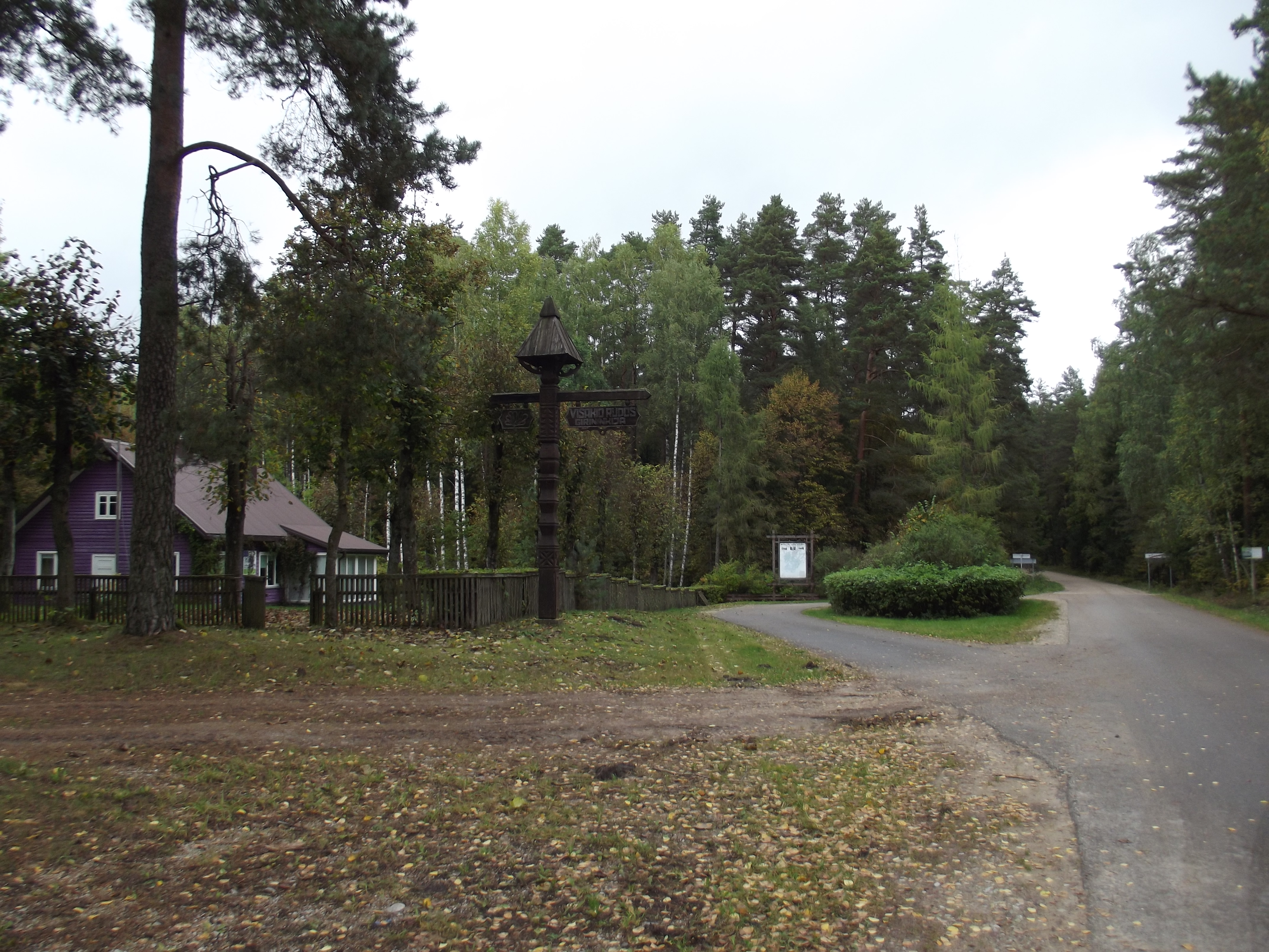 Forestry district in Višakio Rūda, Kazlų Rūda municipality, Lithuania